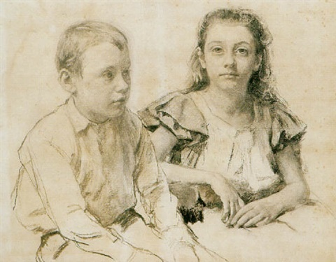 Portret van Paul en Dora Arntzenius